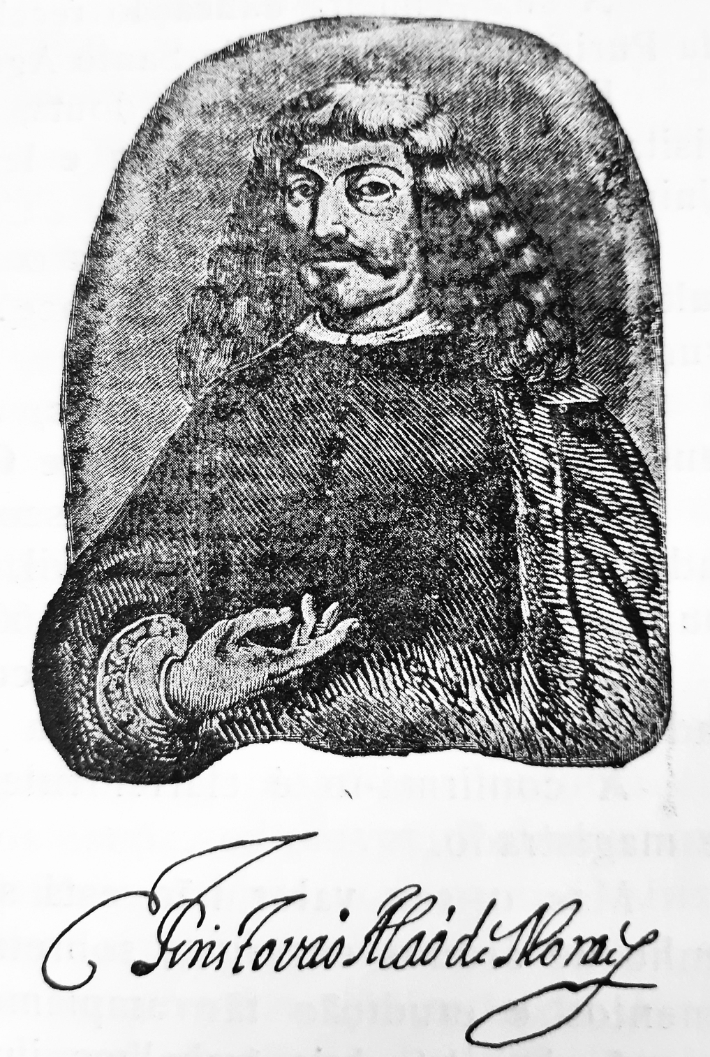 Portuguese writer and genealogist Cristóvão Alão de Morais